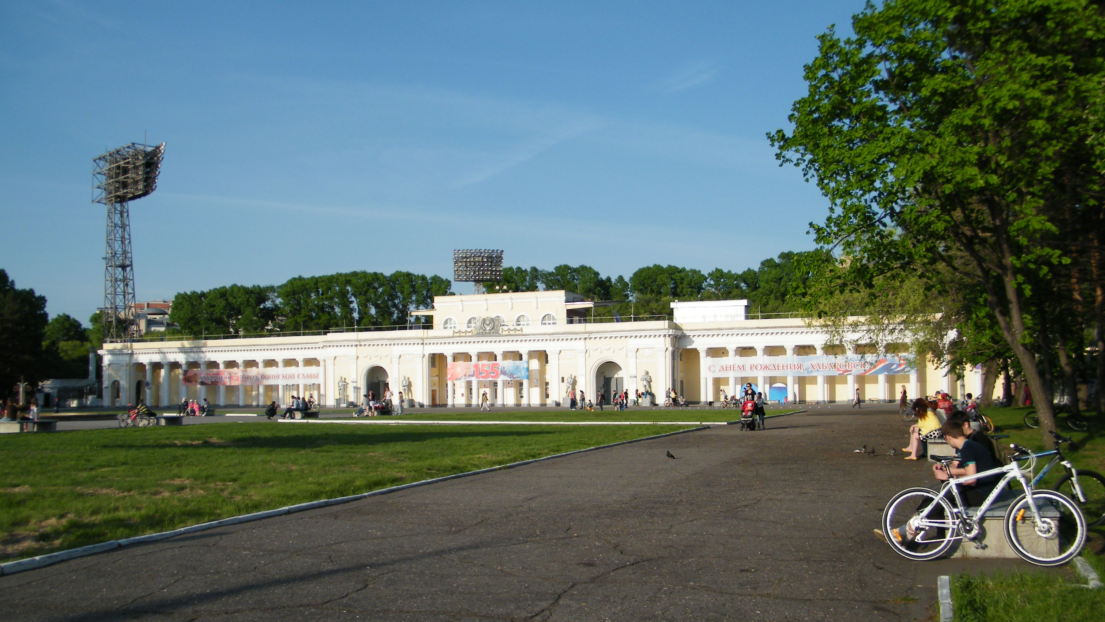 Стадион им Ленина, 155 лет Хабаровску